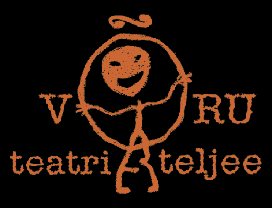 ateljee logo